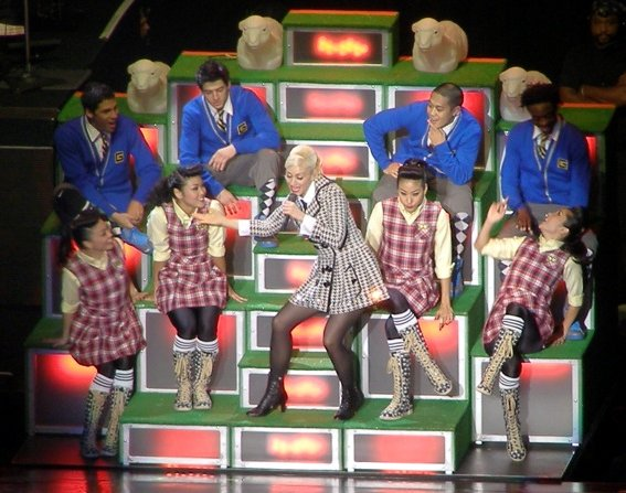 Gwen Stefani performing "Wind It Up" at the Jones Beach Theatre in Wantagh, New York, United States